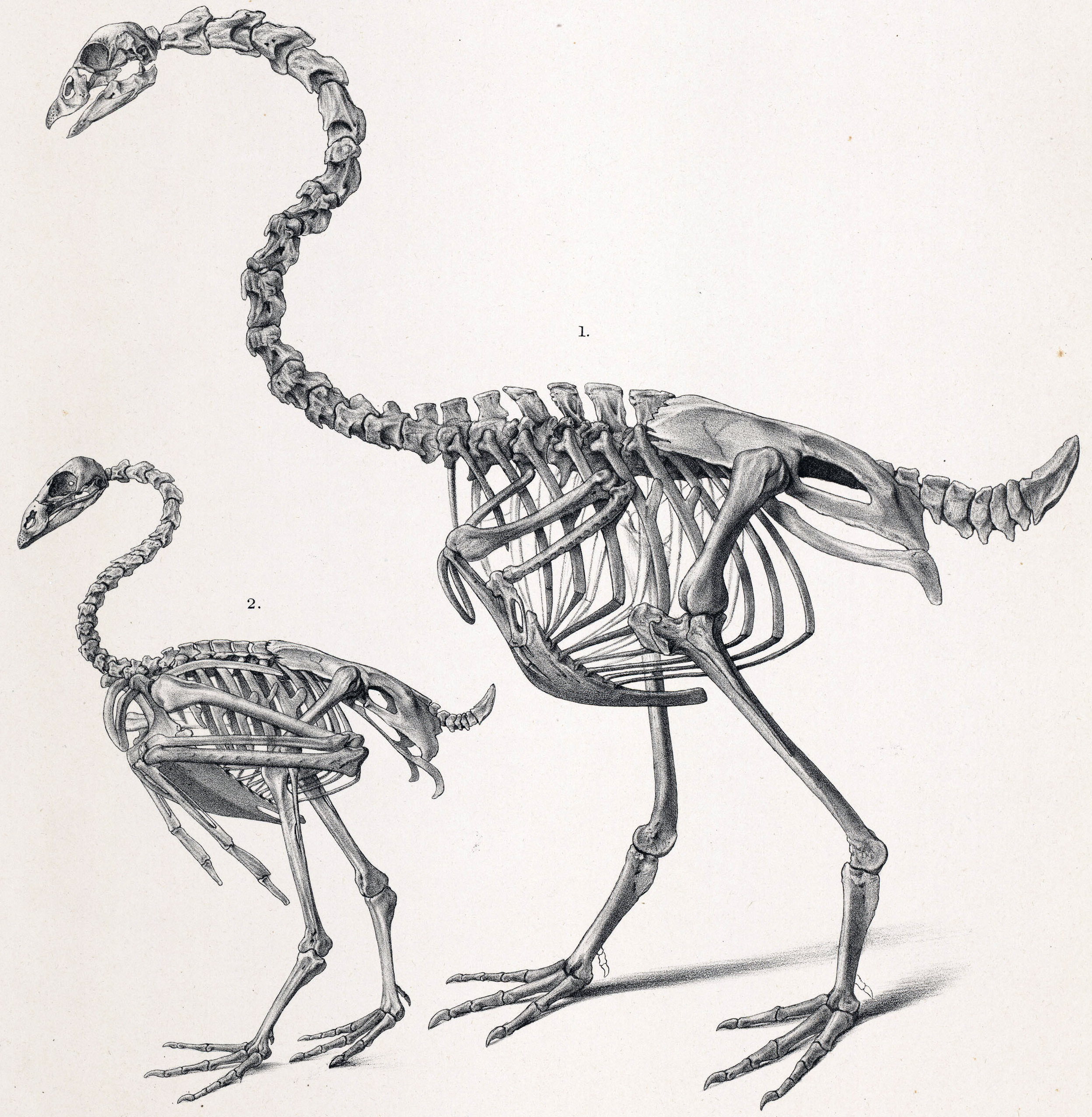 Cnemiornis calcitrans and Cereopsis novaehollandiae skeletons.